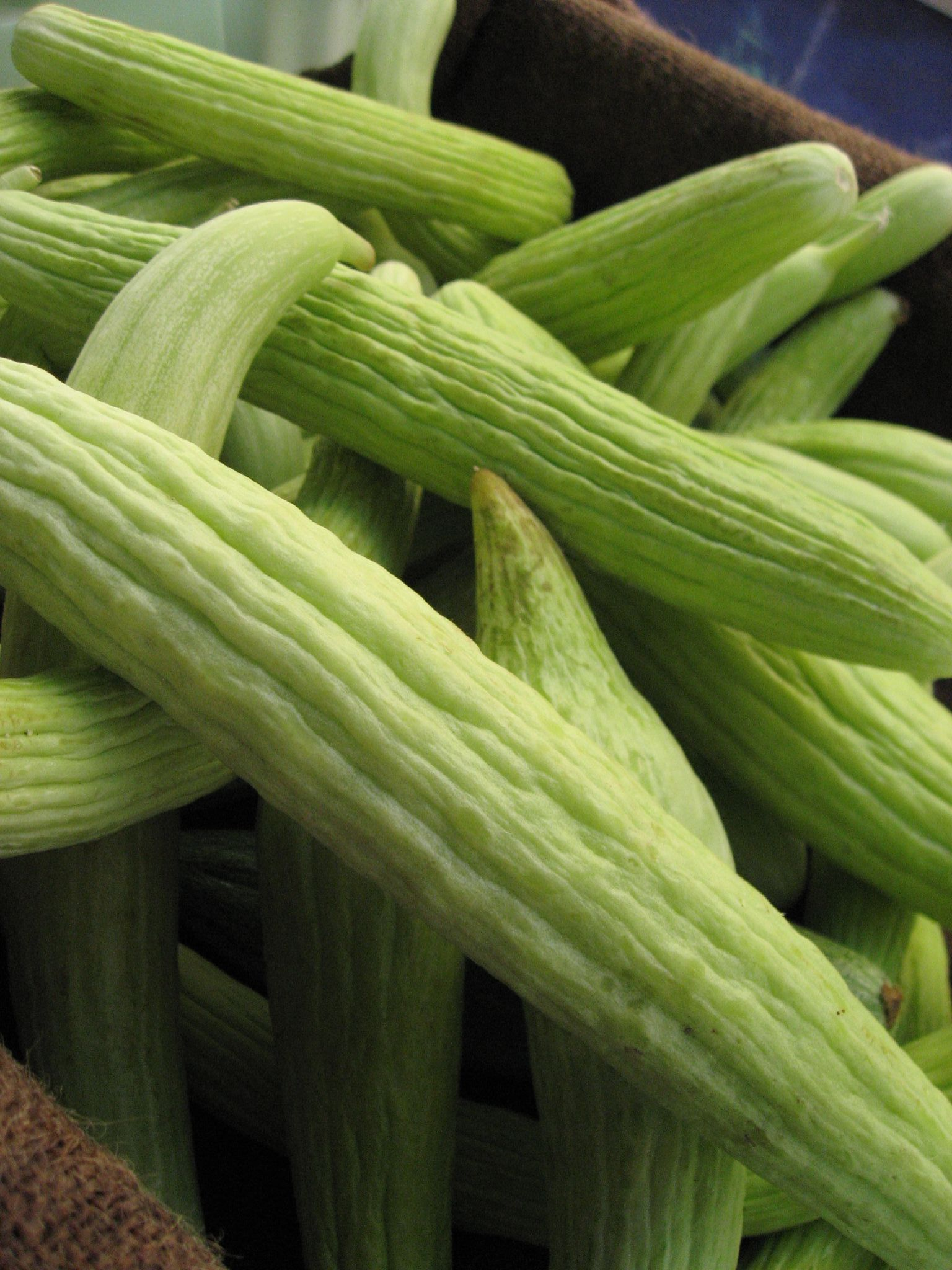 Armenian Cucumbers (Cucumis melo flexuosus) — at the Cupertino Farmers' Market, California.